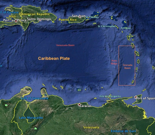 The Grenada Basin is located on the Caribbean Plate and is bordered by the Aves Ridge and the Lesser Antilles, an ctive volcanic island arc.